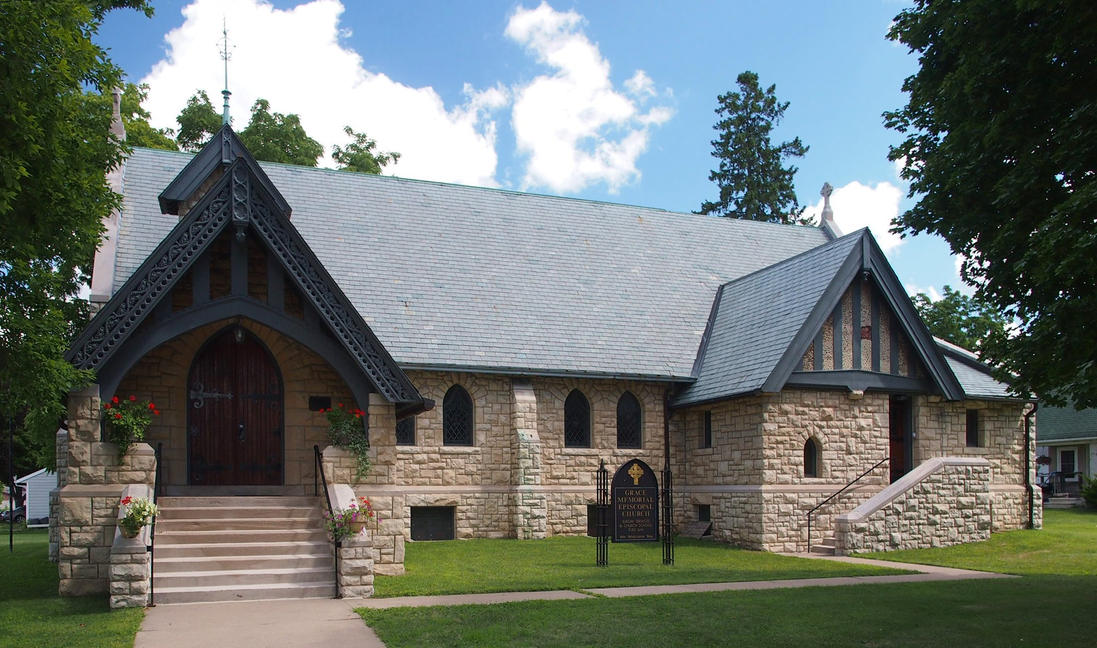 Grace Memorial Episcopal Church, 205 E 3rd St, Wabasha, Minnesota, USA. Viewed from the southwest.